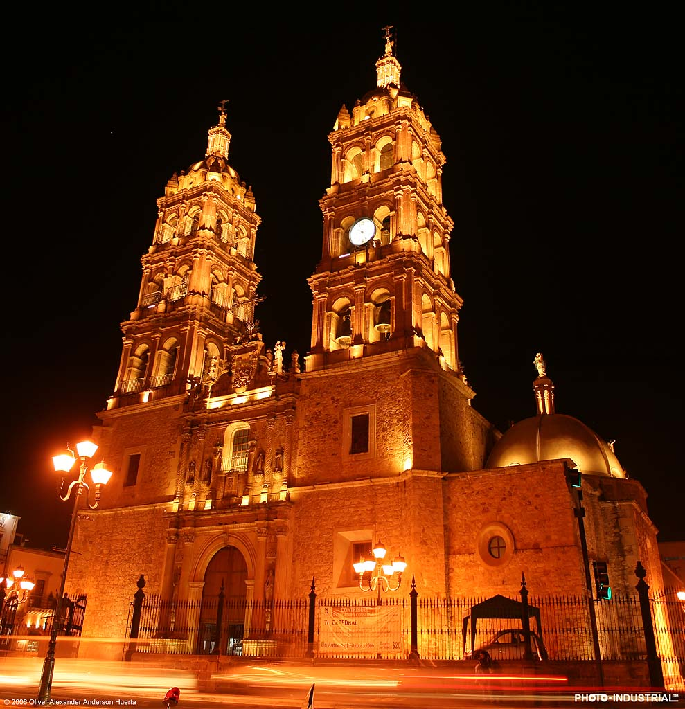 Durango cathedral at night